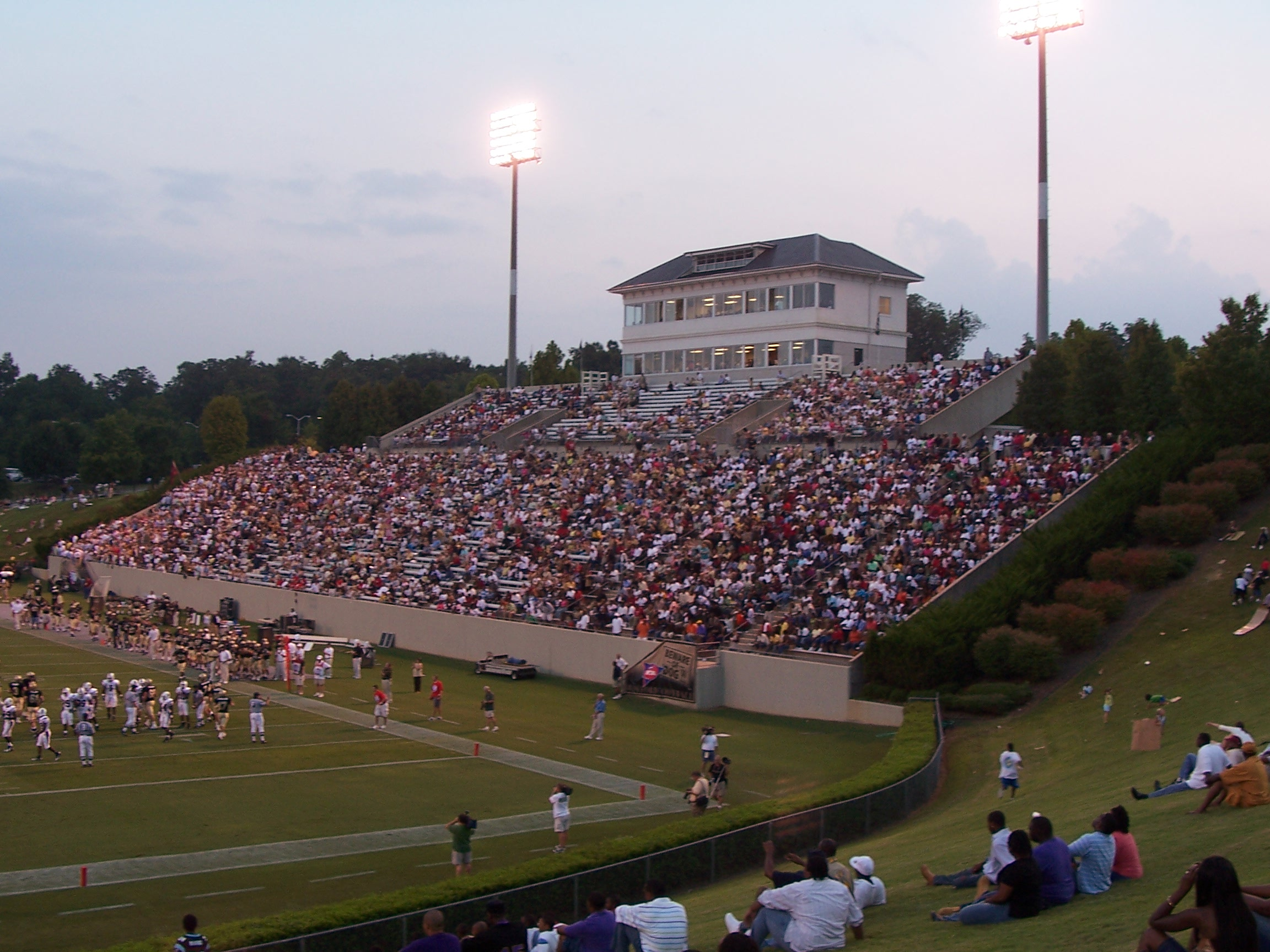 This picture was taken during the Wofford-South Carolina State game on September 2, 2006 by Randall Stewart.